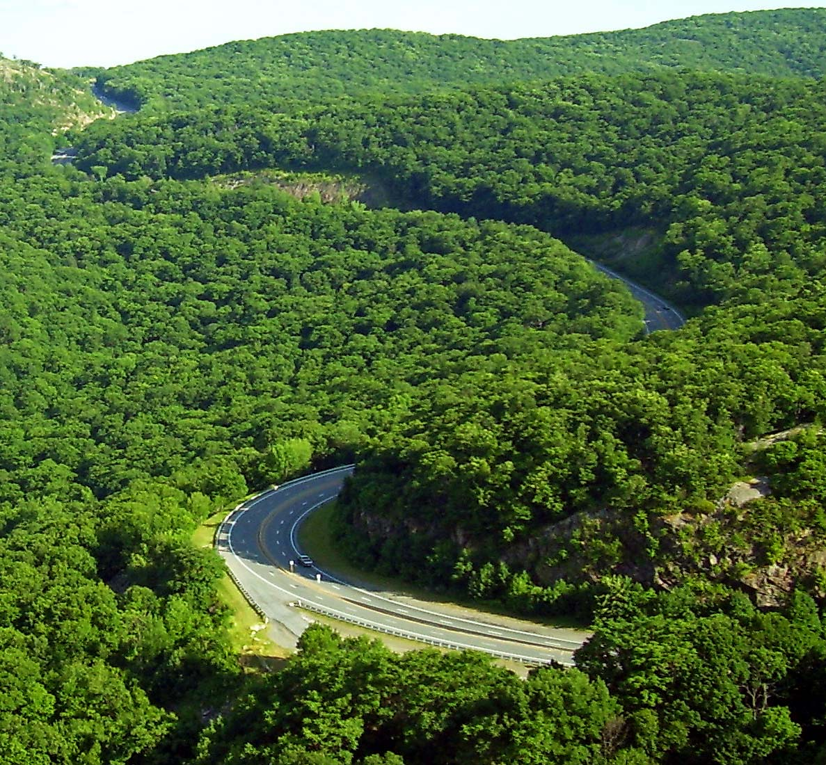 US 9W in the Town of Cornwall, NY USA. Photographed from the summit of Butter Hill.